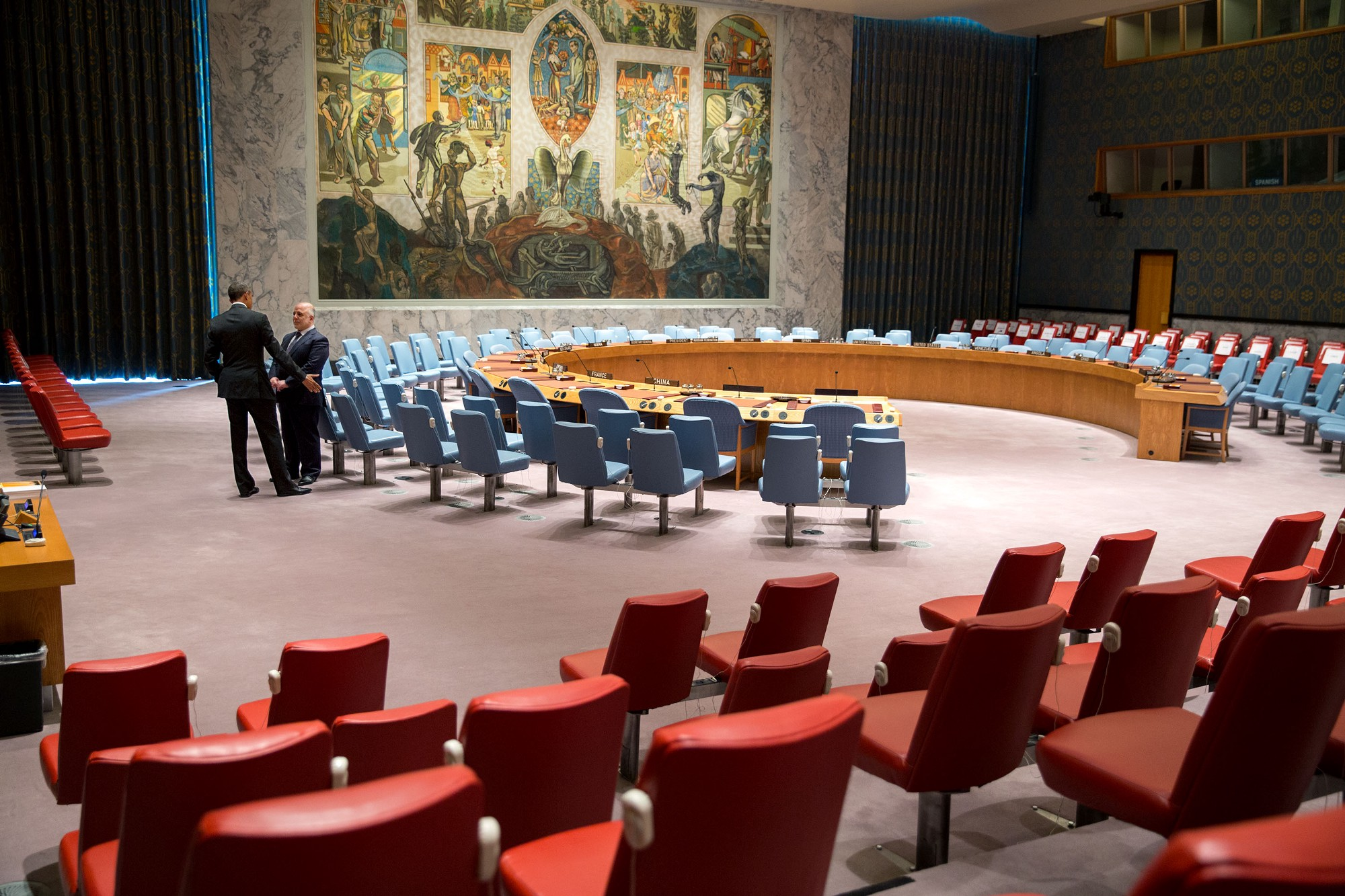 Sept. 29, 2015 “The President asked everyone to leave the room so he could have a private conversation with Iraqi Prime Minister Haider al-Abadi following the Leaders Summit on Countering ISIL and Countering Violent Extremism at the United Nations.” (Official White House Photo by Pete Souza)